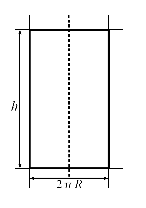 Square of lateral surface of cylinder